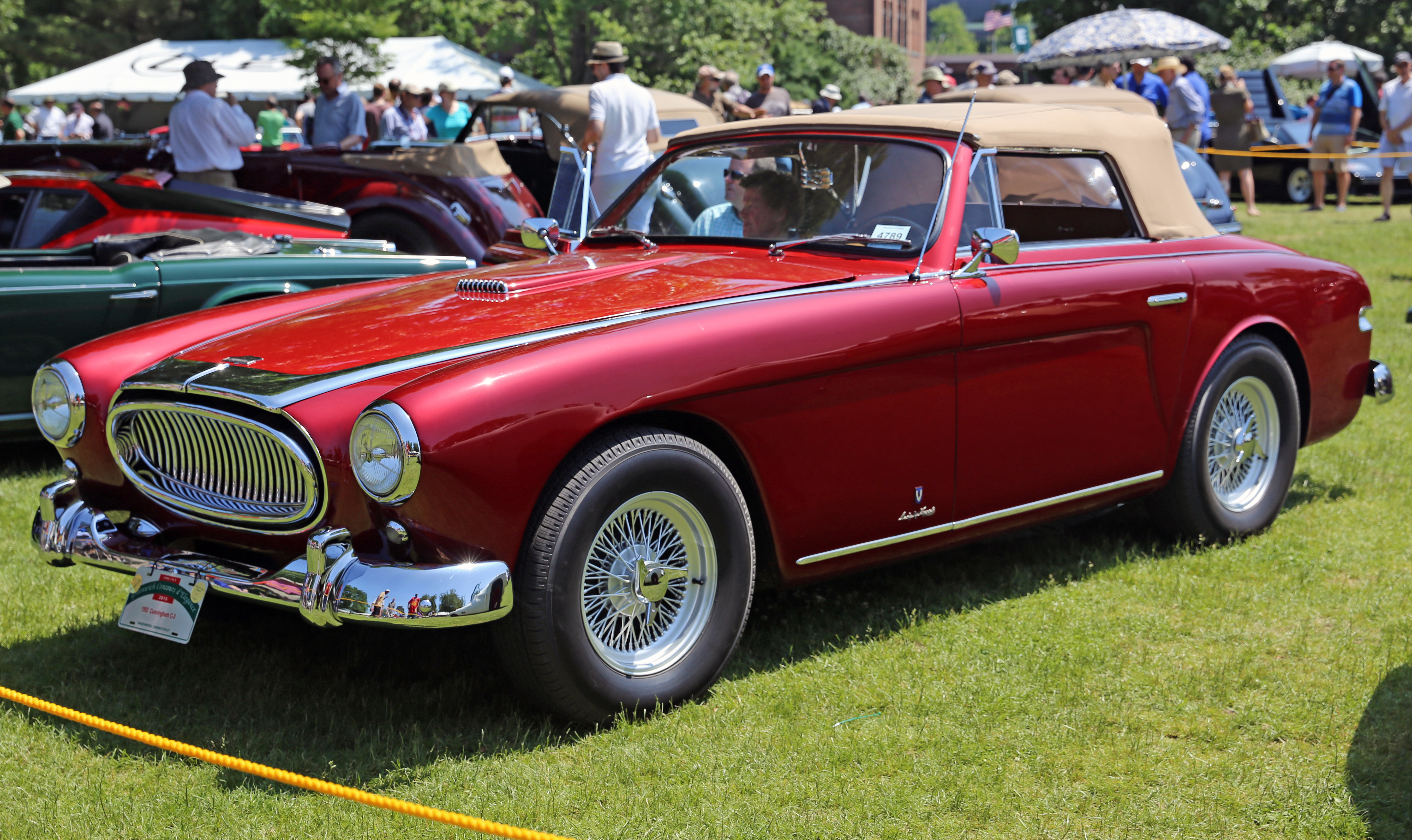 1953 Cunningham C-3 Cabriolet at the 2013 Greenwich Concours d'Elegance. Cunningham built a mere 25 road cars, all bodied by Vignale, and this is one of the five convertibles. Chassis number 5441. 235hp four-carb Chrysler V8 coupled to a Chrysler Fluid-Torque gearbox.